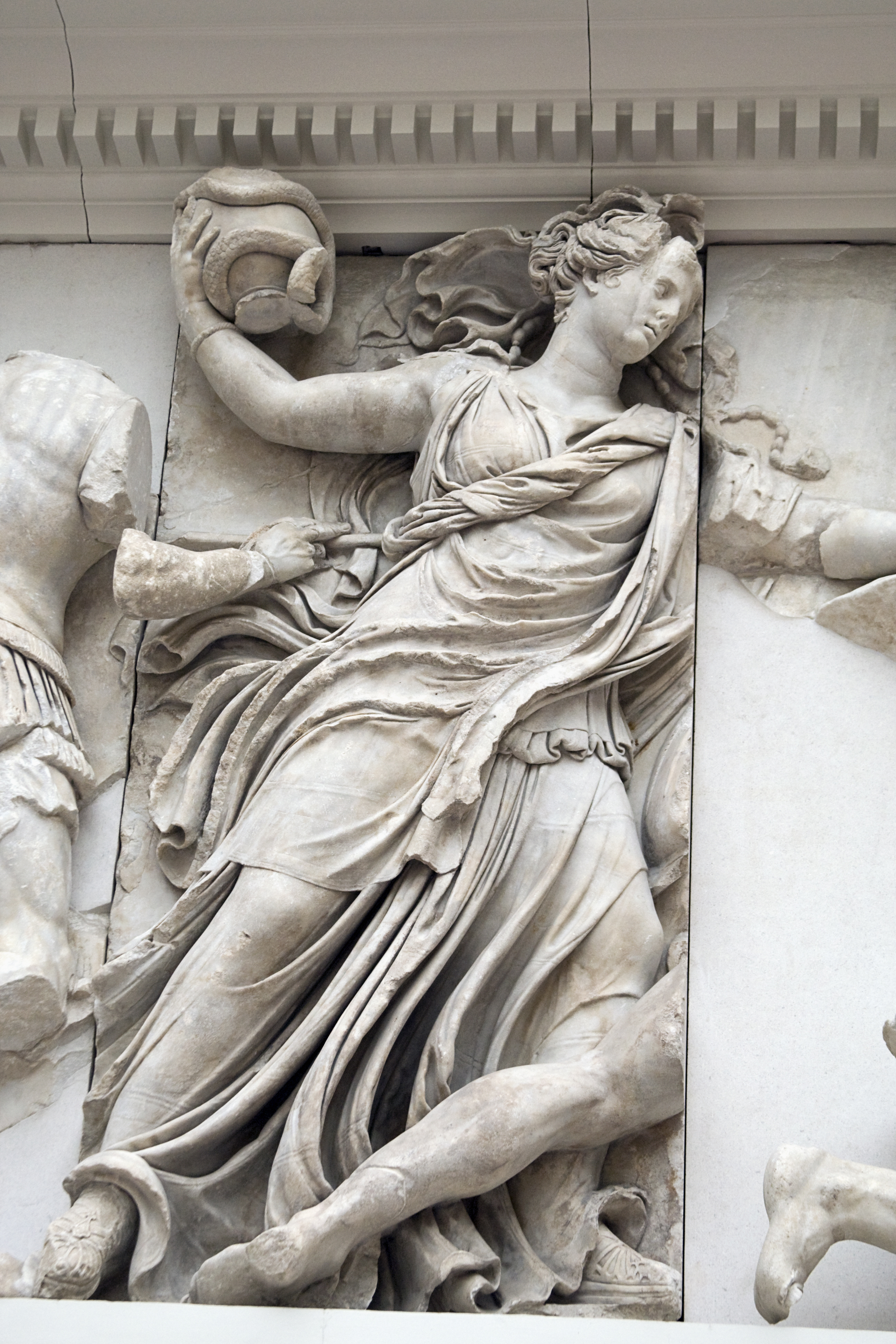 Pergamon Altar frieze - a Moira fighting a giant. Source for identification - Pergamon Museum Berlin 66 Masterpieces published by Scala publishers, 2005.